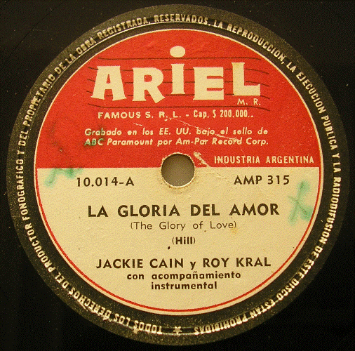 Jackie Cain/Roy Kral: The Glory of Love